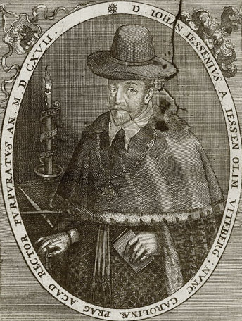 Jan Jessenius, Theatrum Europaeum